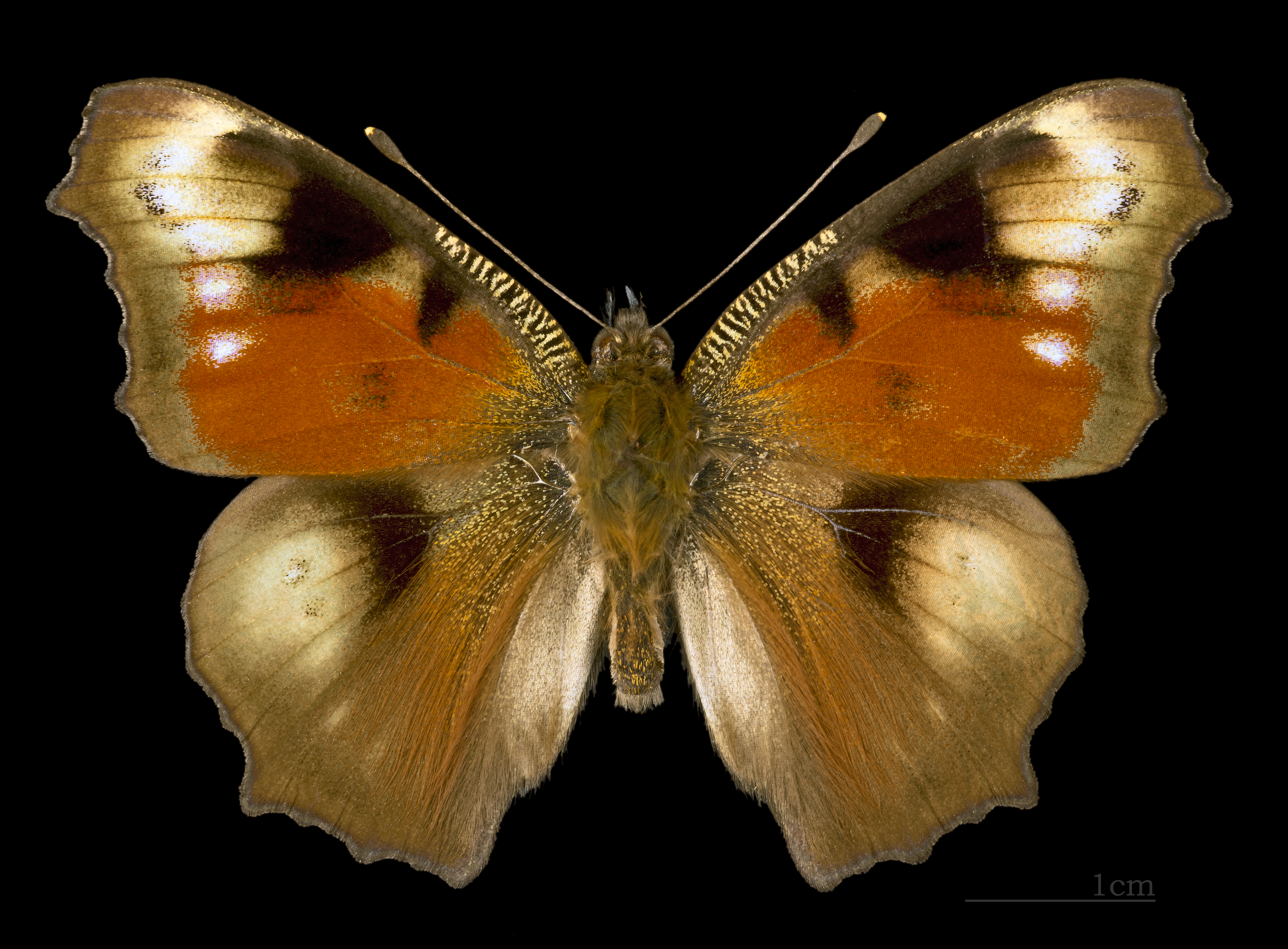 European Peacock - Dorsal side - Achromatic form of eyespots.